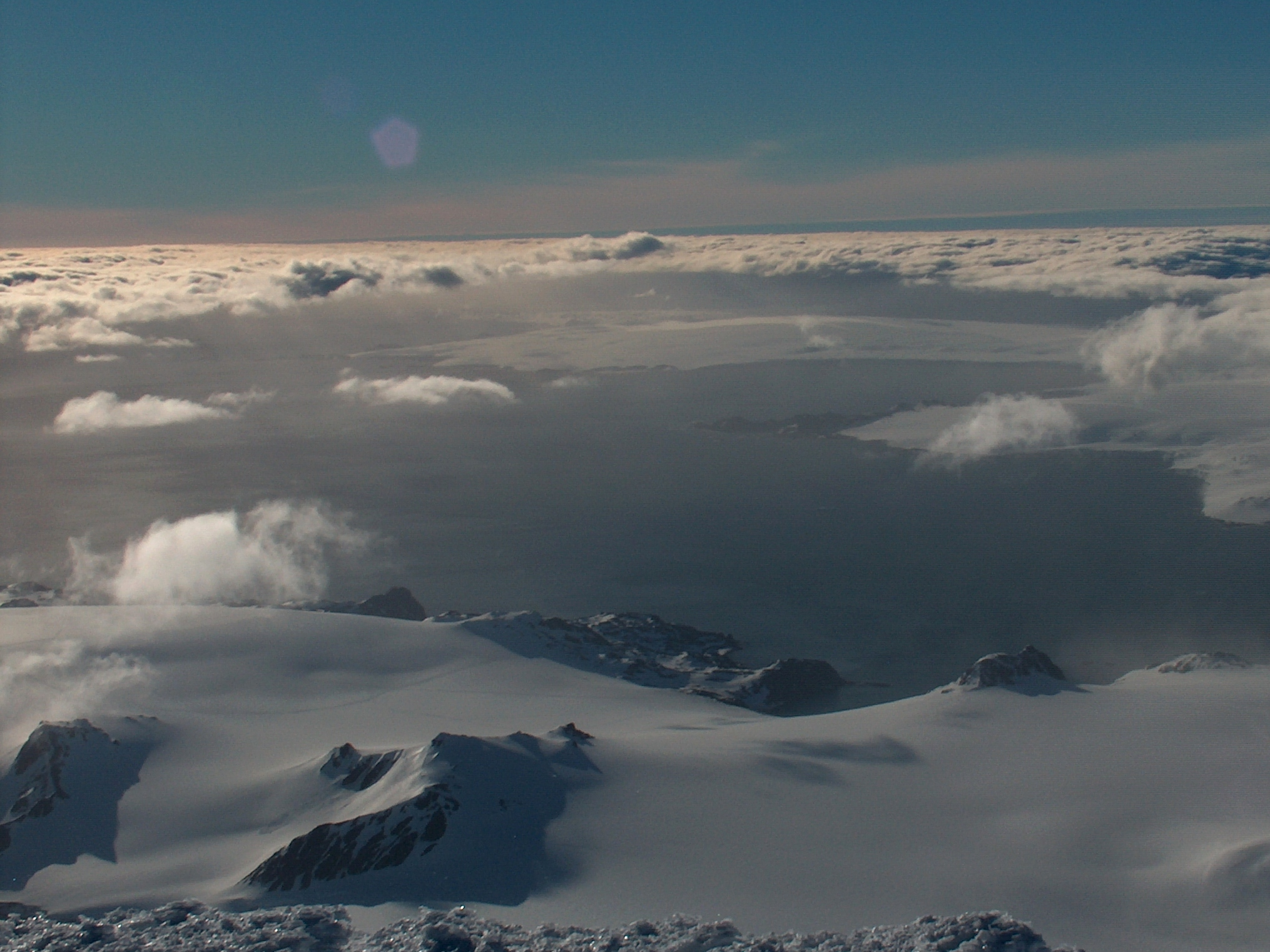 Napier Peak, Johnsons Glacier, Mount Reina Sofia and Charrúa Ridge from Mount Friesland, Tangra Mountains, Livingston Island in the South Shetland Islands, Antarctica.